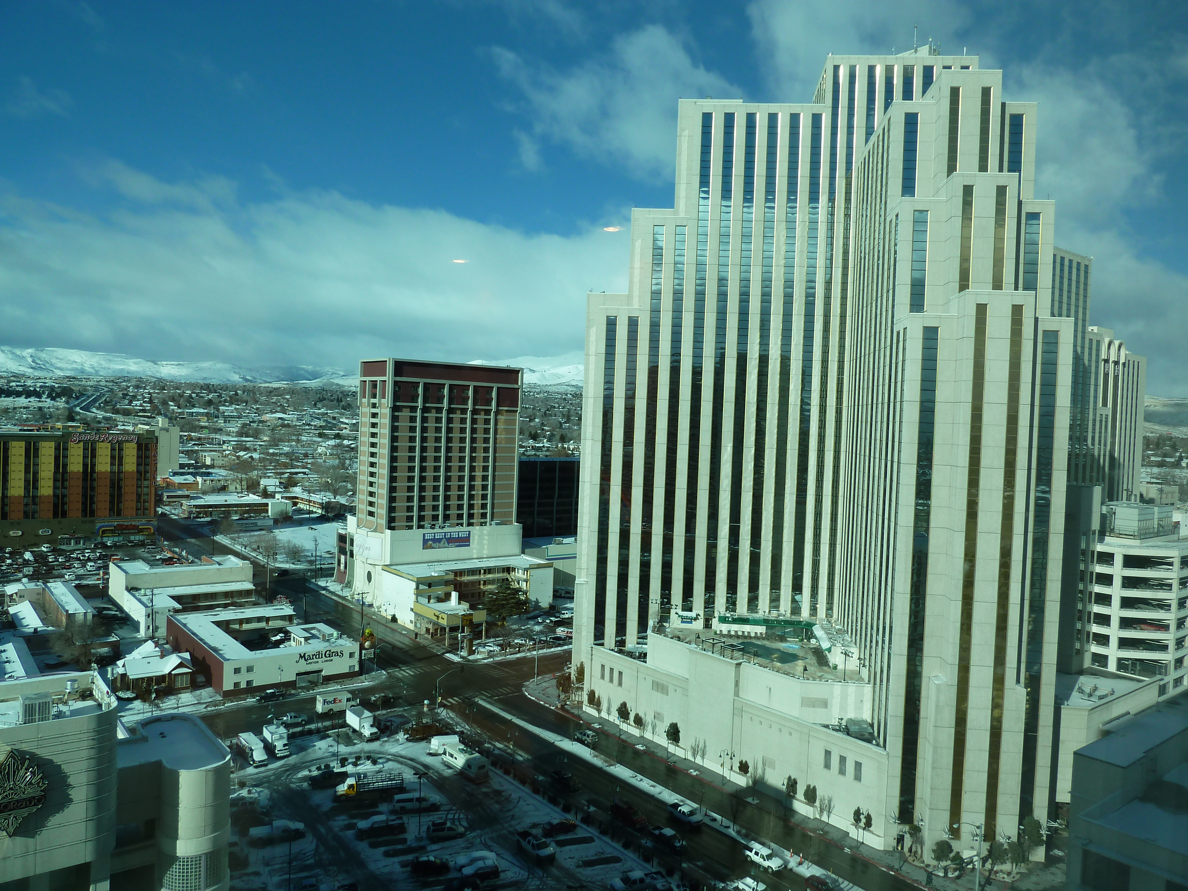 A view of Reno, NV with the Silver Legacy tower visible on the right.